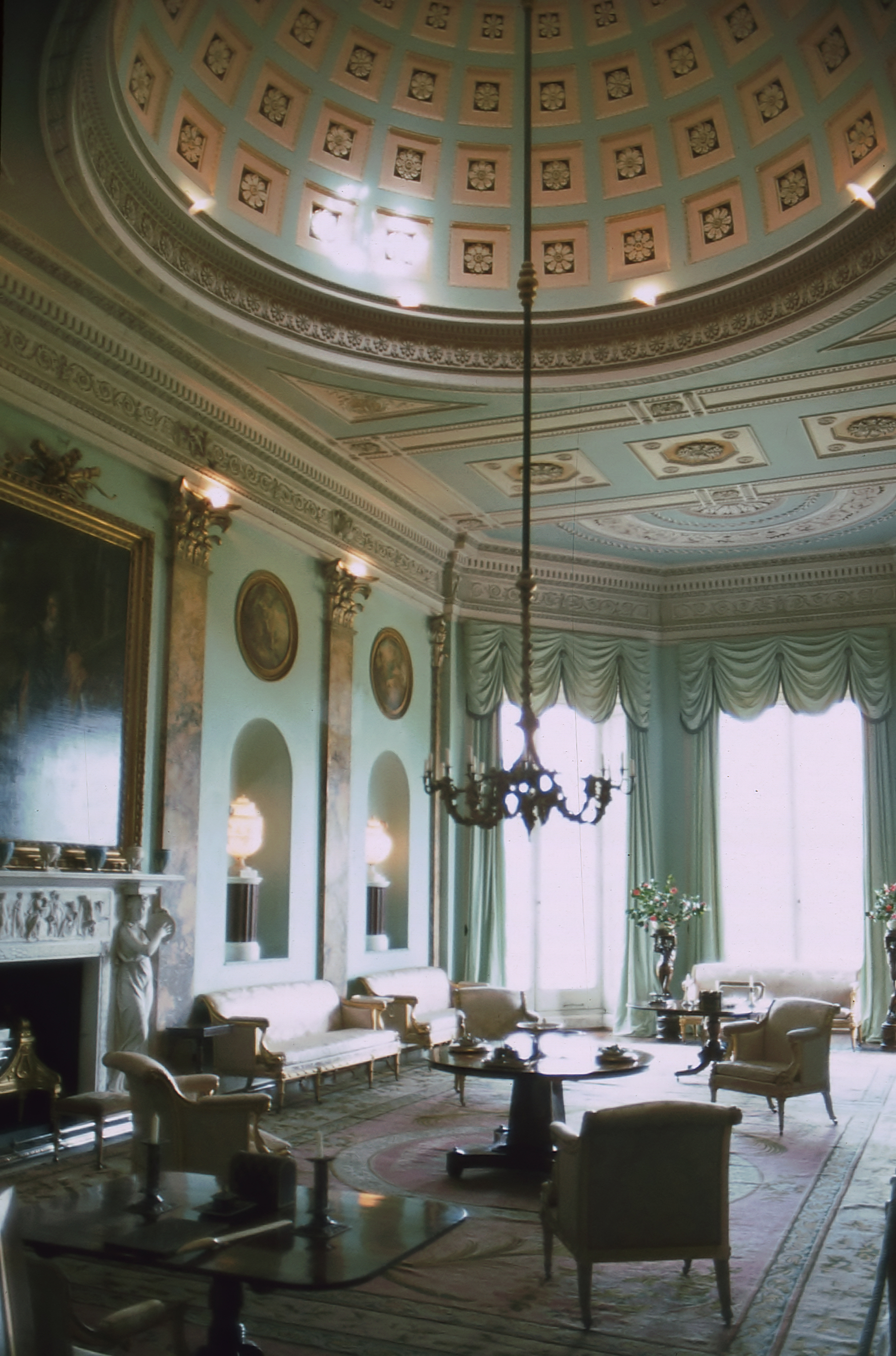 Powderham Castle - Music Room, South Devon / England